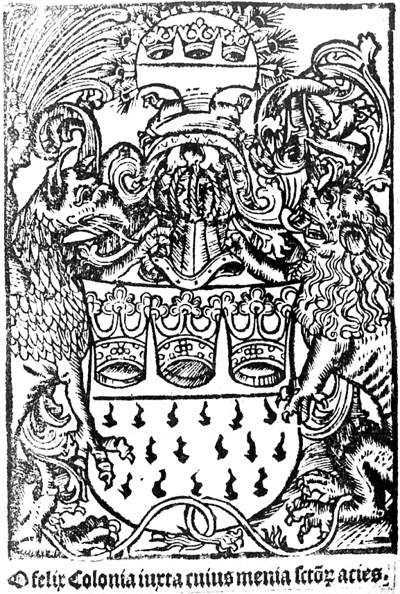 Coat of arms of the city of Cologne